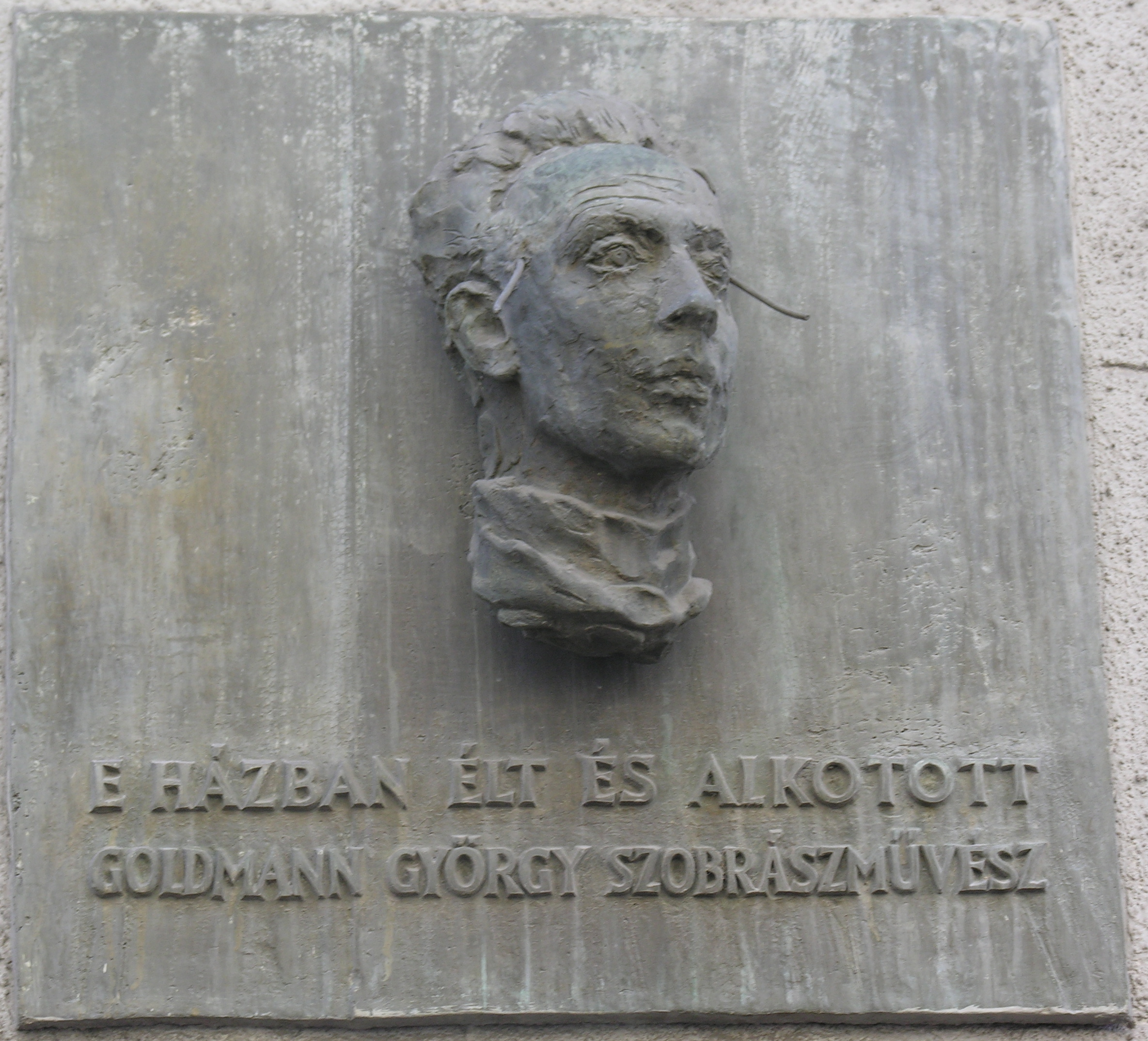 Commemorative plaque of György Goldmann in Budapest District V, Kálmán Imre Street No 15